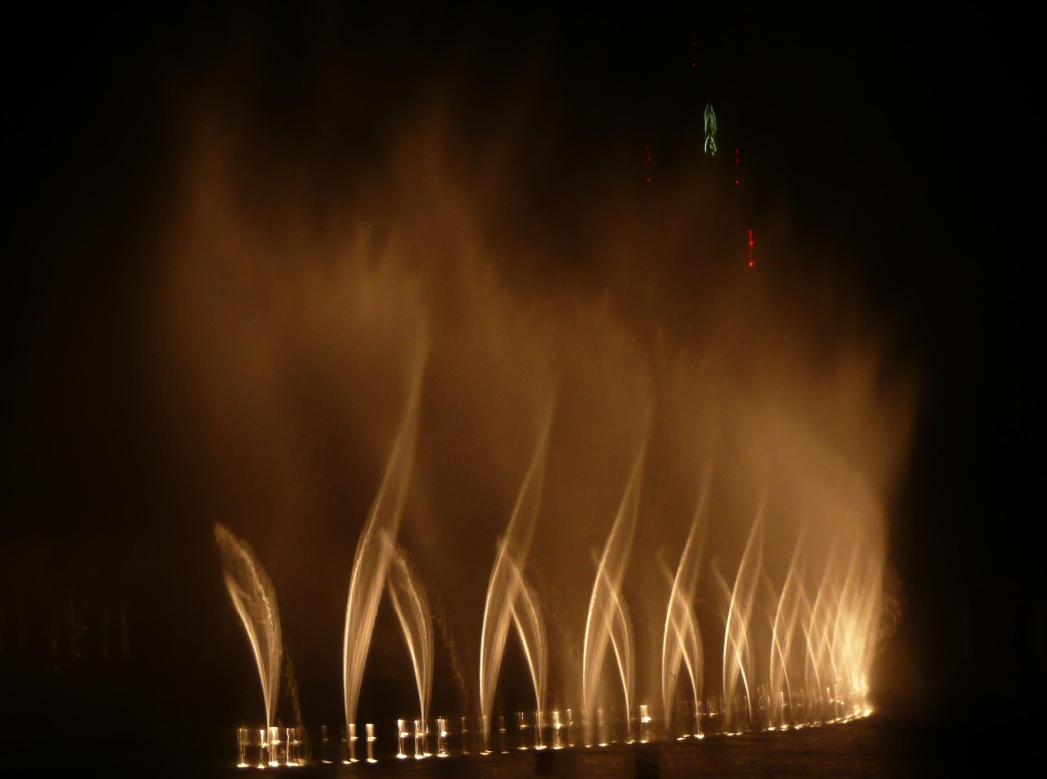 The Dubai Fountain performing to the song "Bassbor Al Fourgakom" by Hussain Al Jassmi and Al Thokol Samz.